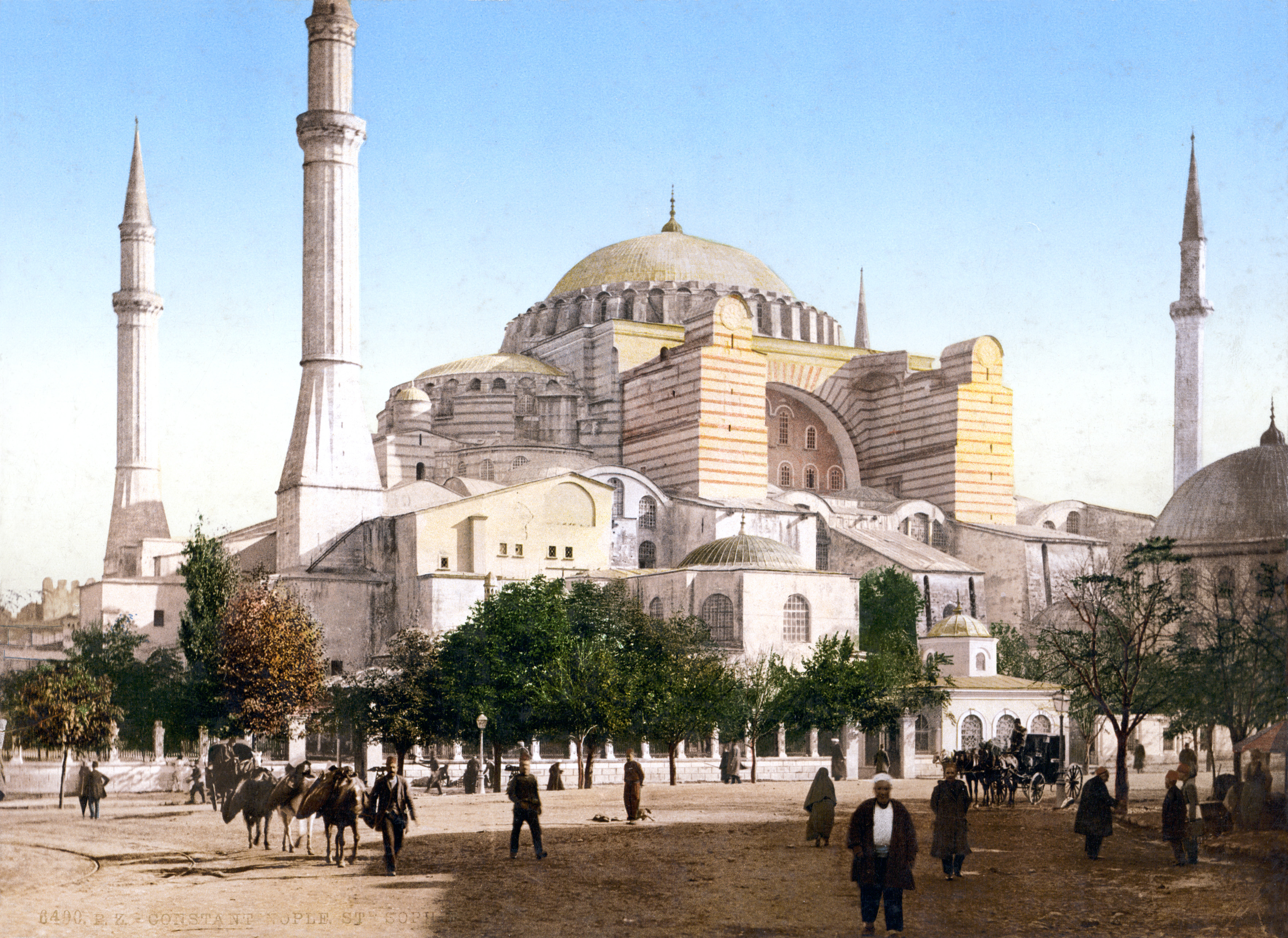 6400 P.Z. Constantinople, Ste. Sophie.